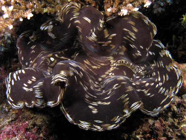 Tridacna giant clam from Komodo National Park